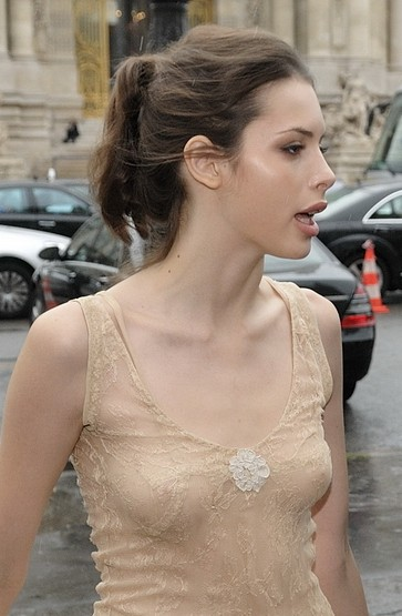 Charlotte Kemp Muhl at Chanel spring-summer 2010 fashion show